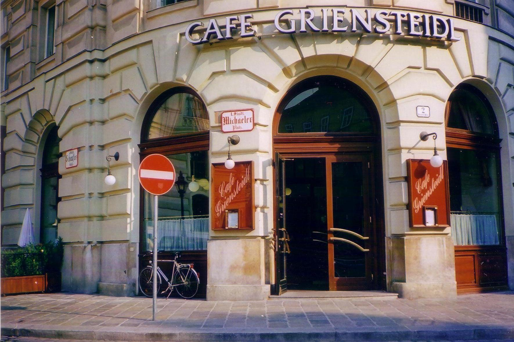 Cafe Griensteidl in Vienna